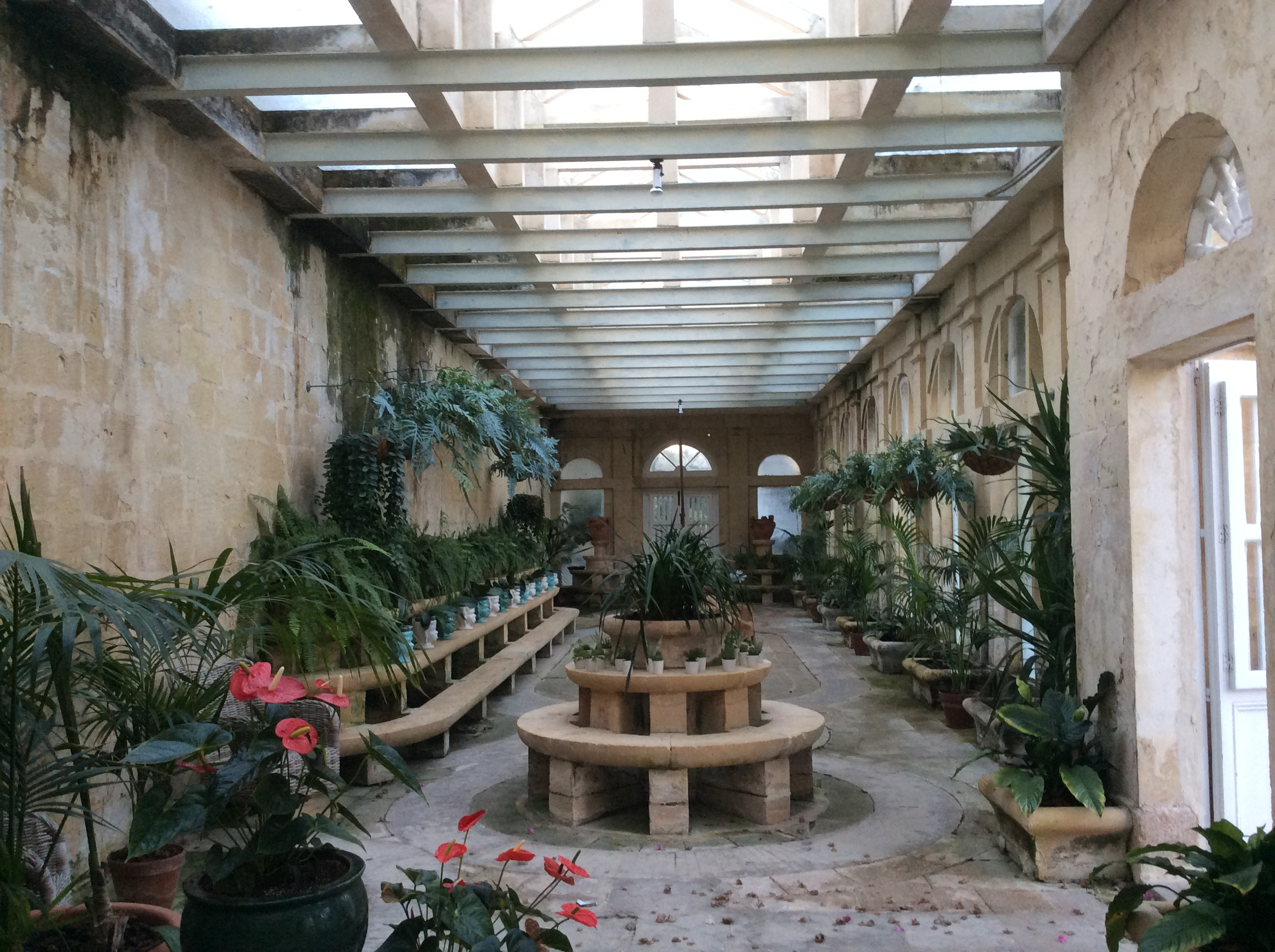 Palazzo Parisio This media is about Maltese cultural property with inventory number 01205.